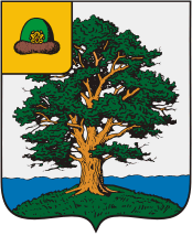 Pronsk rayon (Ryazan oblast), coat of arms